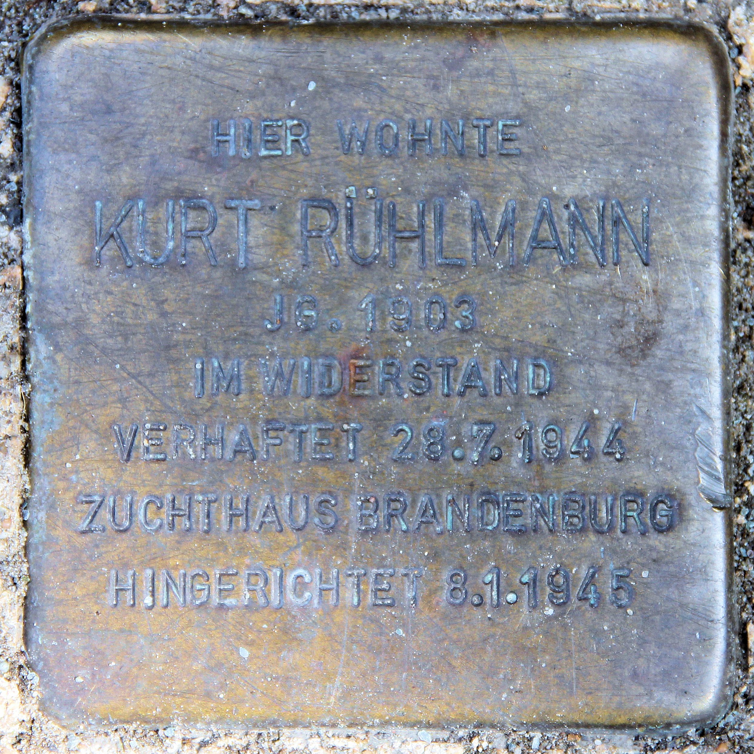 "Stolperstein" (stumbling block), Kurt Rühlmann, Dirschelweg 16, Berlin-Mariendorf, Germany Koordinate:52°26′42″N 13°23′55″E / 52.445°N 13.39861°E